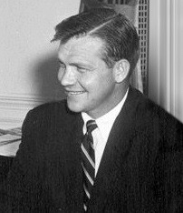 President John F. Kennedy with Governor John B. Swainson and Senator Philip Hart of Michigan